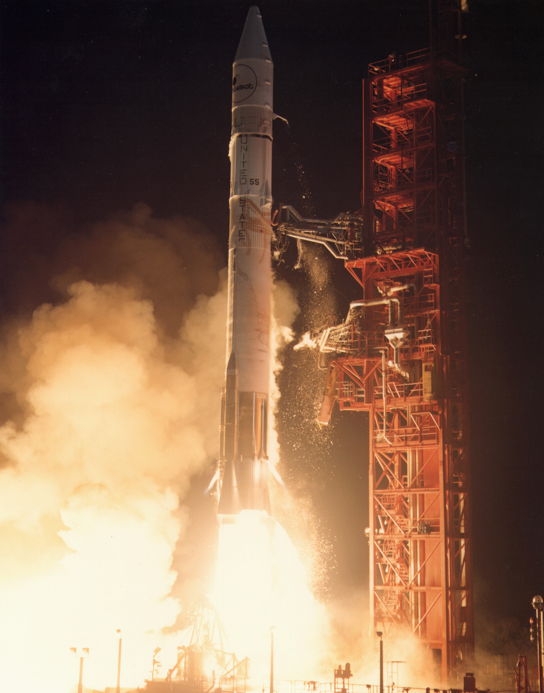 Atlas Centaur (AC-55) with INTELSAT V F-3 (503) on board launches from Launch Complex 36 CCAF